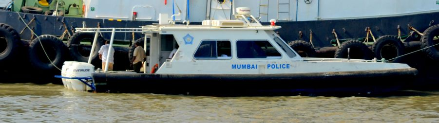 Mumbai Police Speed Boat